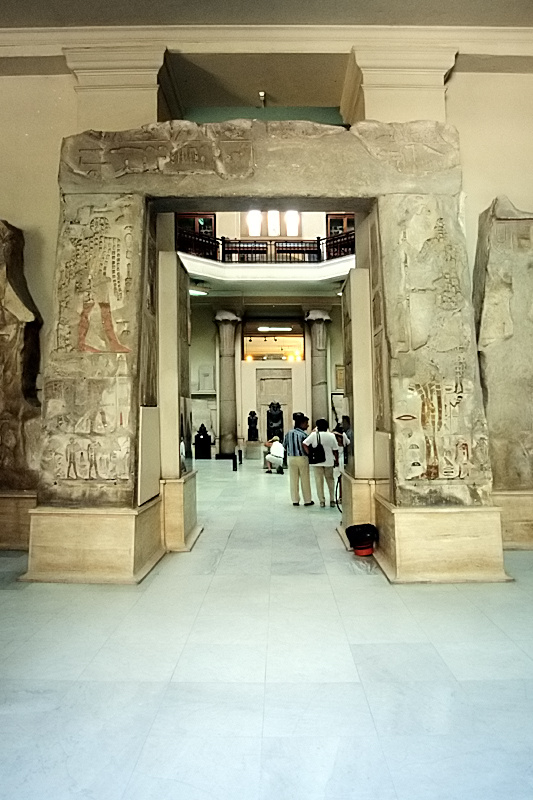 Paste relief of the Mastaba 16 at Meidum, Egyptian Museum of Cairo, Egypt